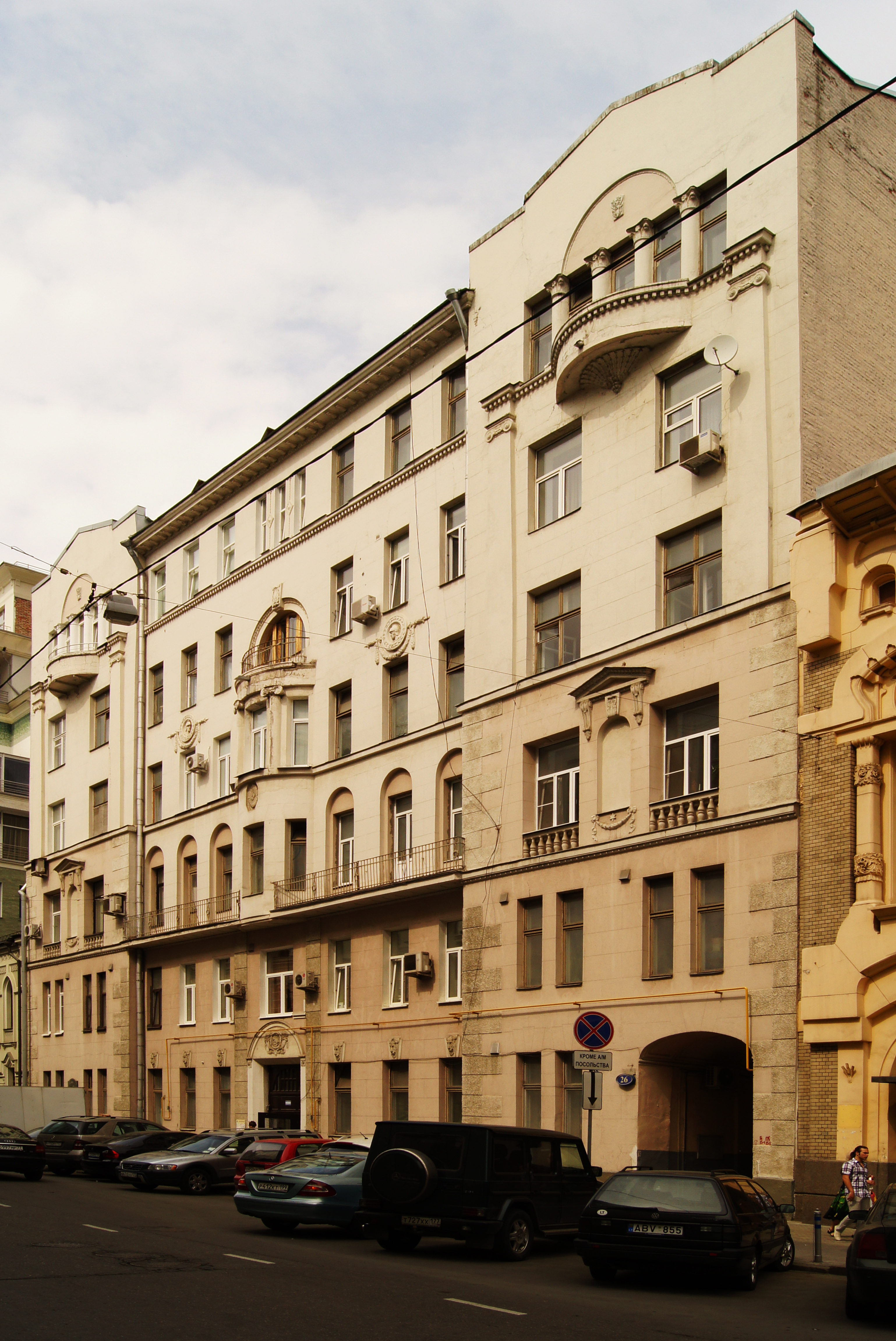 Povarskaya Street Moscow 26